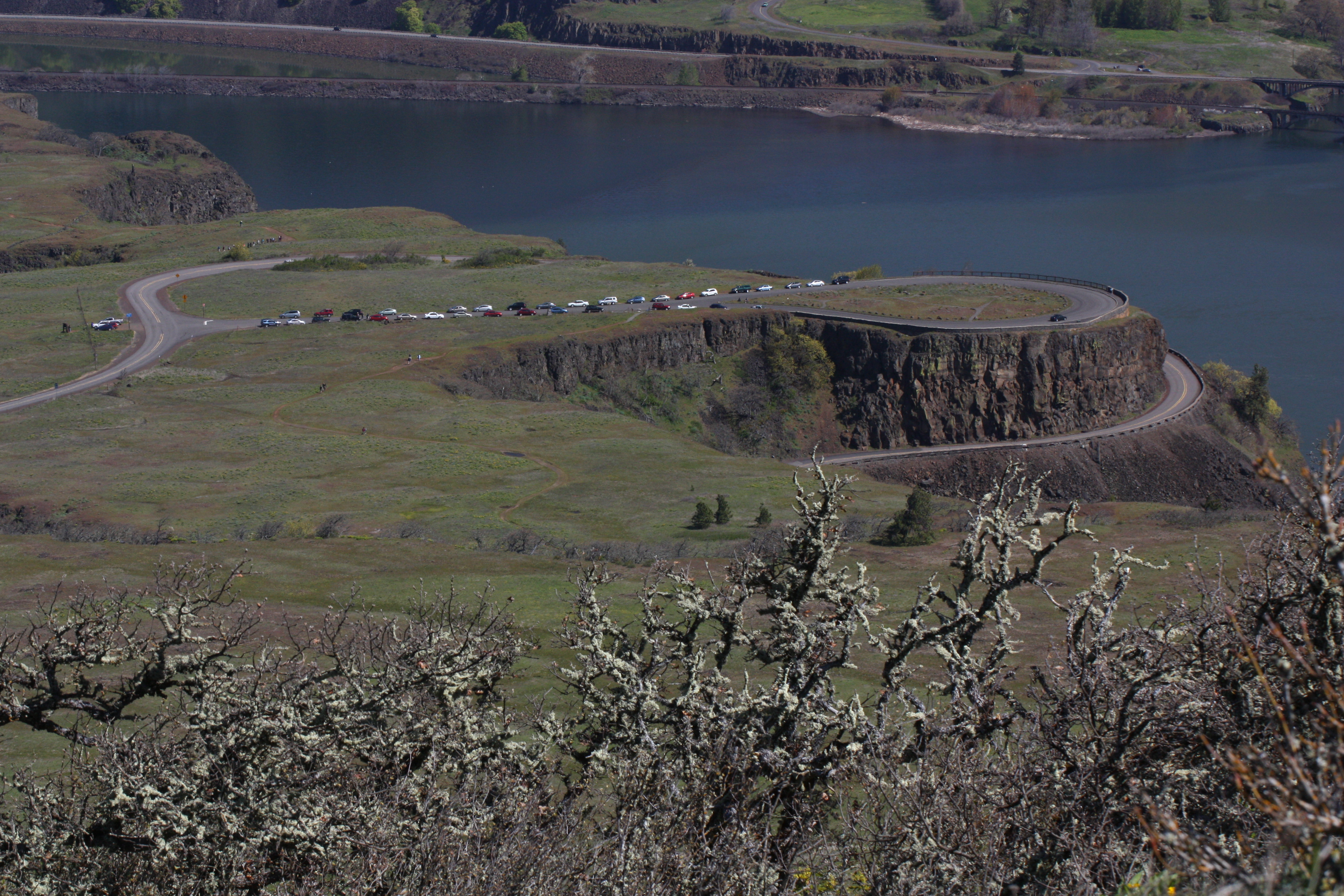 Mayer State Park with Historic Columbia River Highway; Rowena Crest; Columbia River Viewpoint location: McCall Point Trail, Tom McCall Preserve Viewpoint elevation: 467 meter (1531 ft) View direction: 13° Location source: Garmin GPSmap 60CSx Location Datum: WGS84